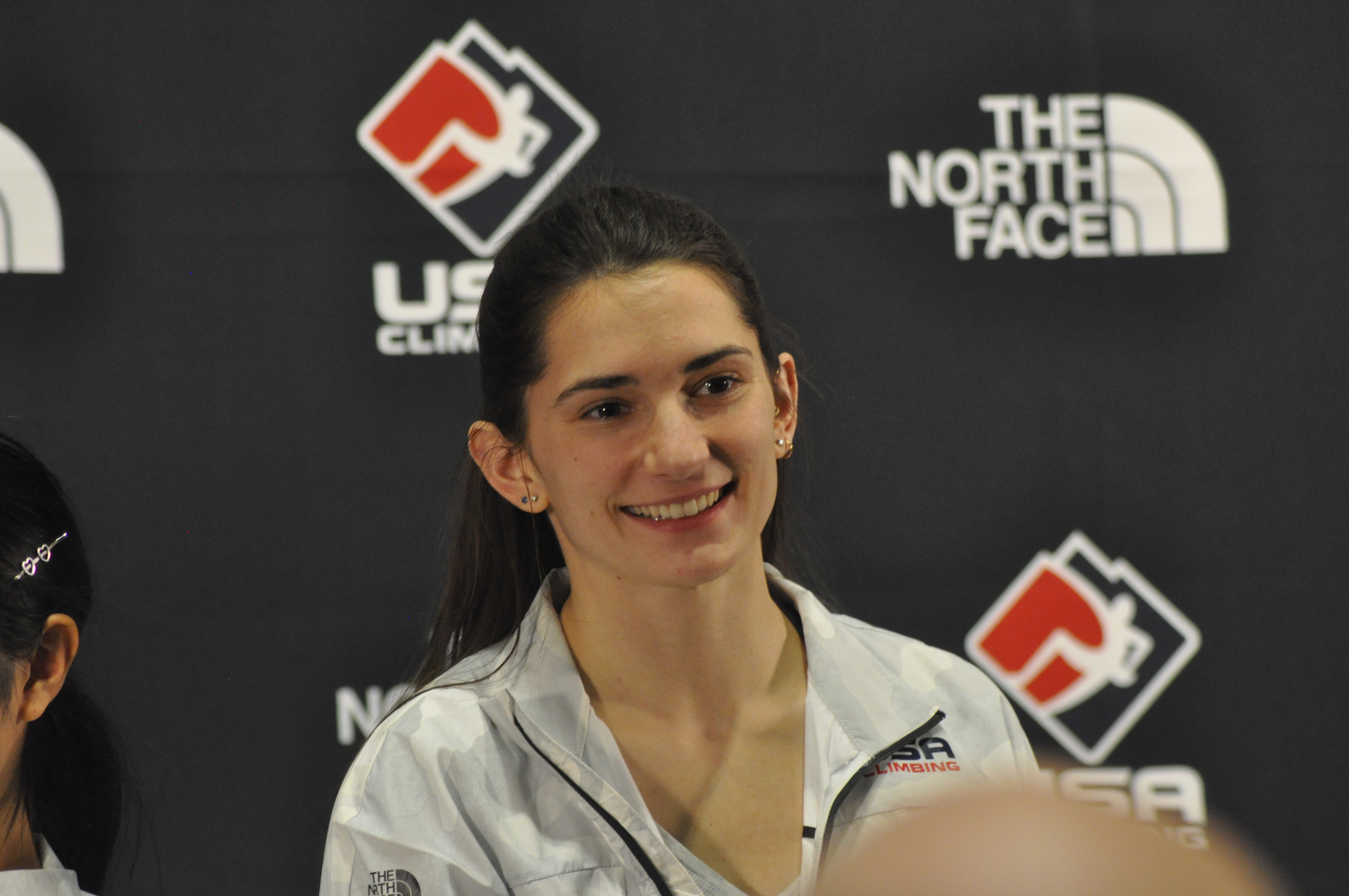 2019 Sport & Speed Open National Championships held on March 8-9, 2019 in Sportrock climbing gym in Alexandria, Virginia. Kyra Condie during award ceremony.